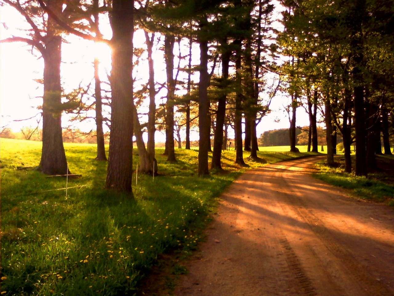 Forest road at Appleton Farms Park in Massachusetts. Licensing